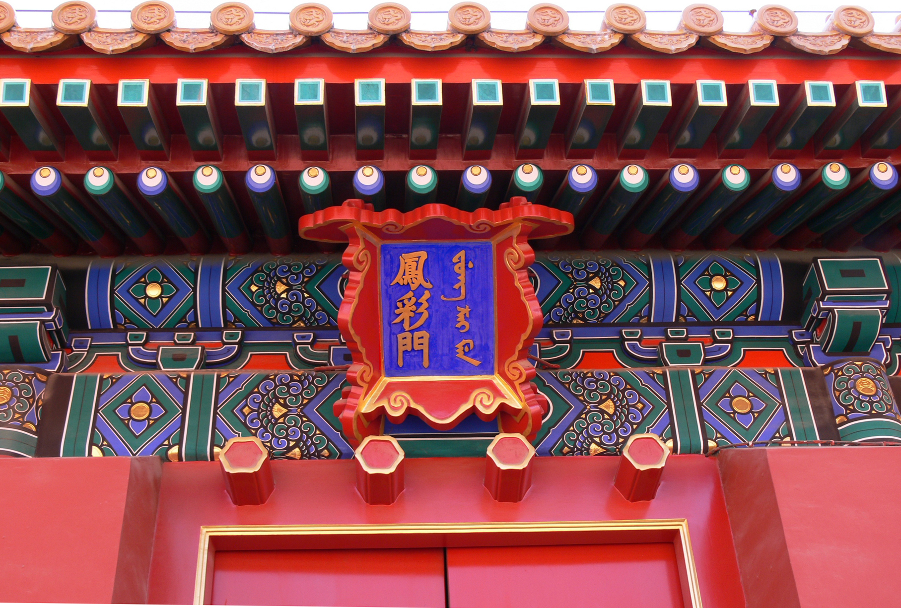 Imperial Palace decorative color painting.